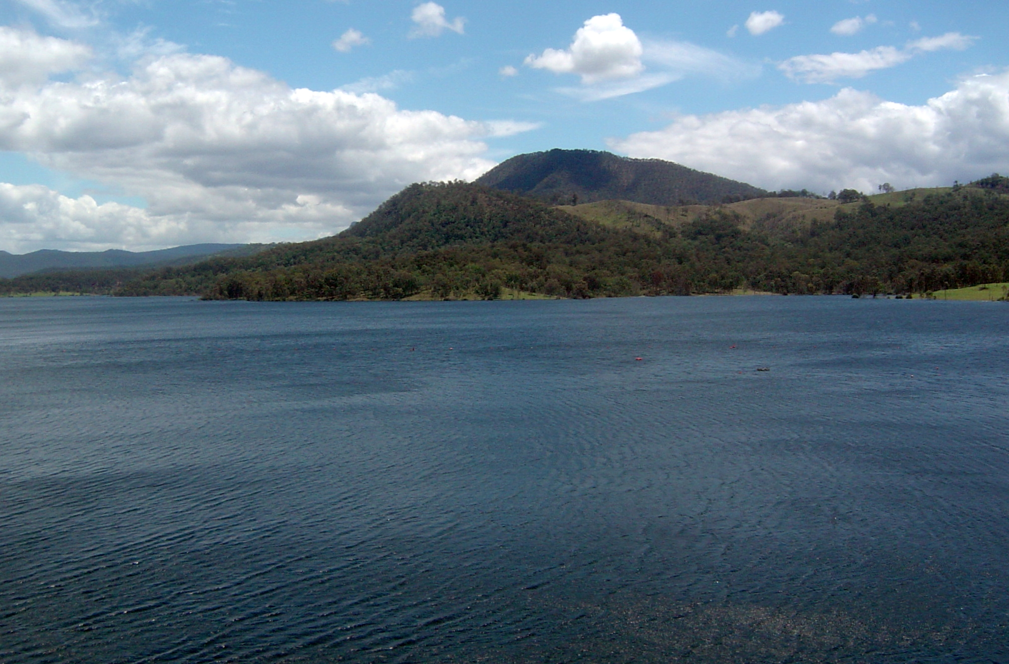 Photo of Lake Maroon, Queensland, Australia from top of the centre of dam wall. Dam level was at 100% capacity.